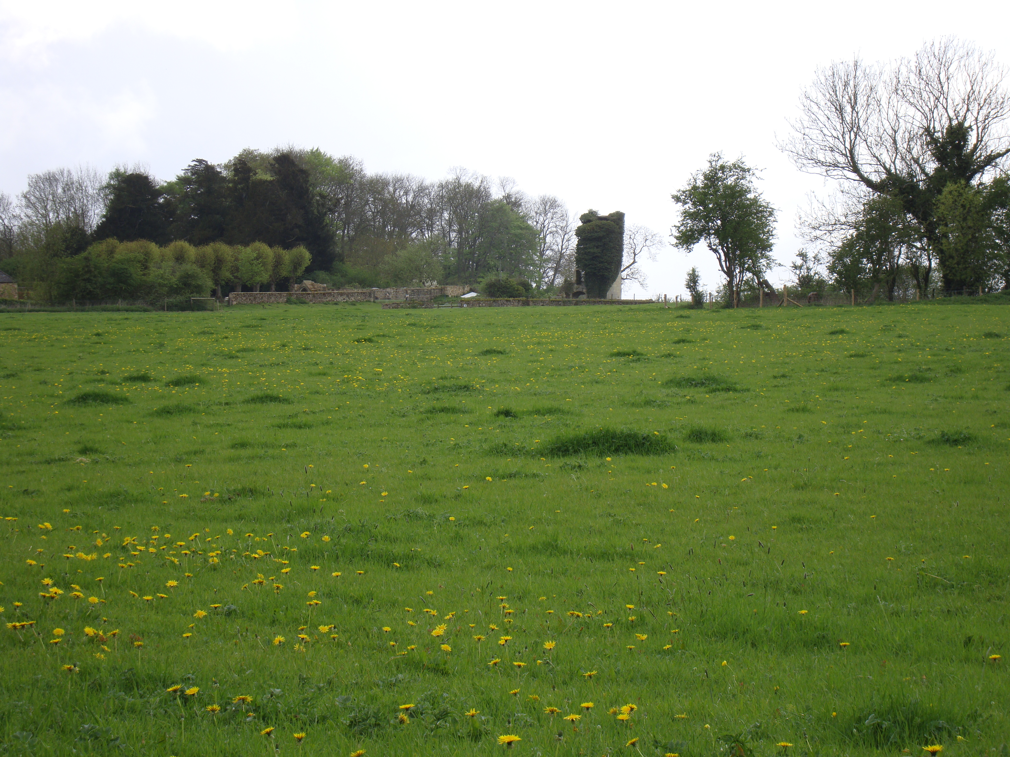 Photograph of the remains of Bradenstoke Priory at Bradenstoke Abbey farmstead, Wiltshire, England